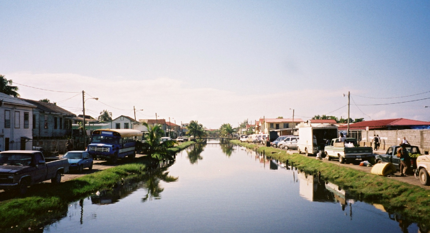 Belize City, BelizeCanal at Bus Terminal